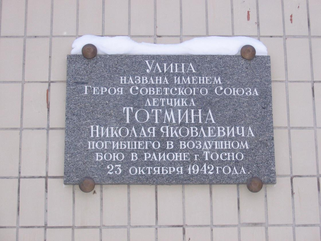 Memorial table on Totmina street, town Tosno, Russia